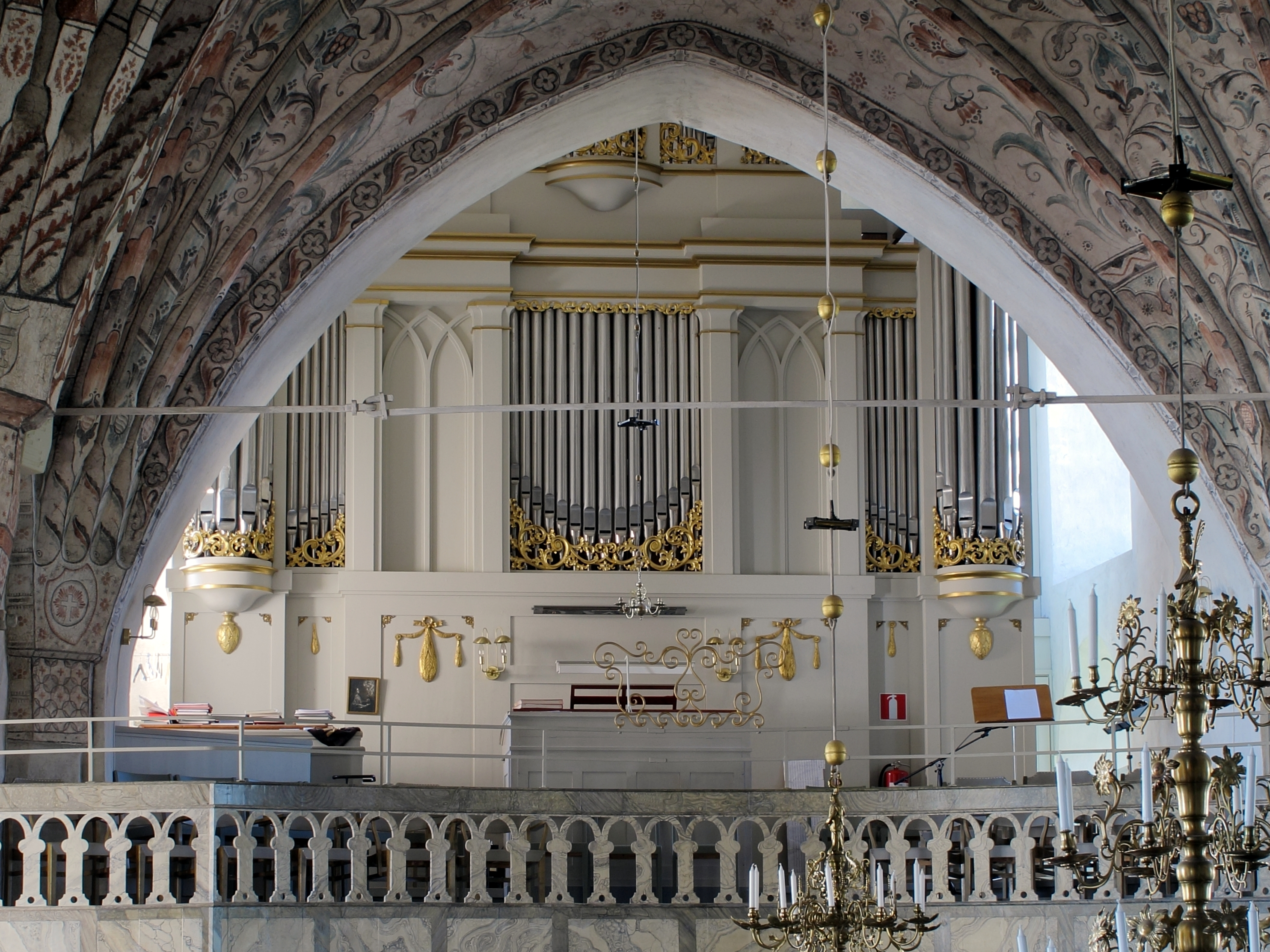 Church of Stora Skedvi in Dalarna, Sweden.